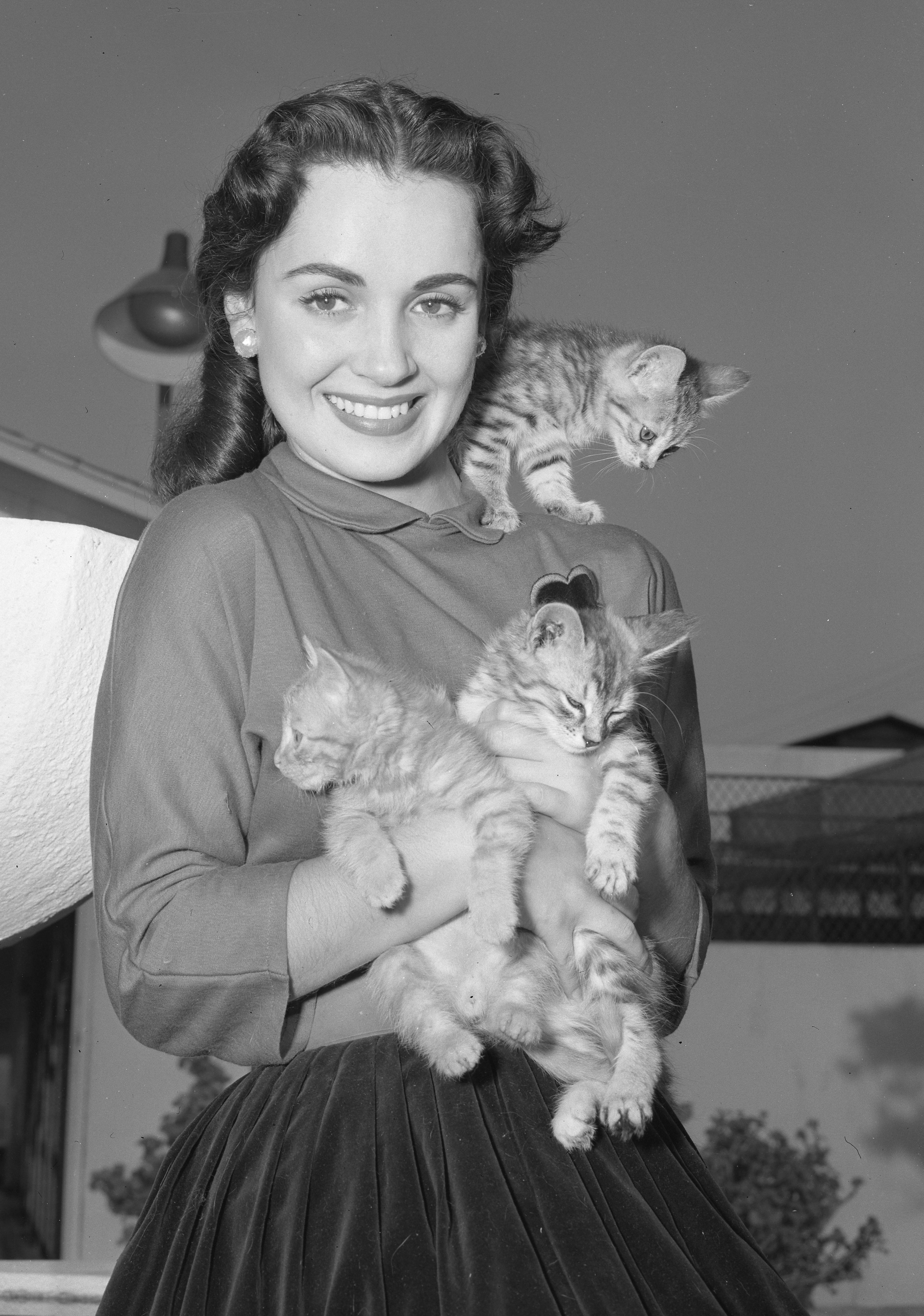 Actress Susan Cabot with three kittens, circa 1950.